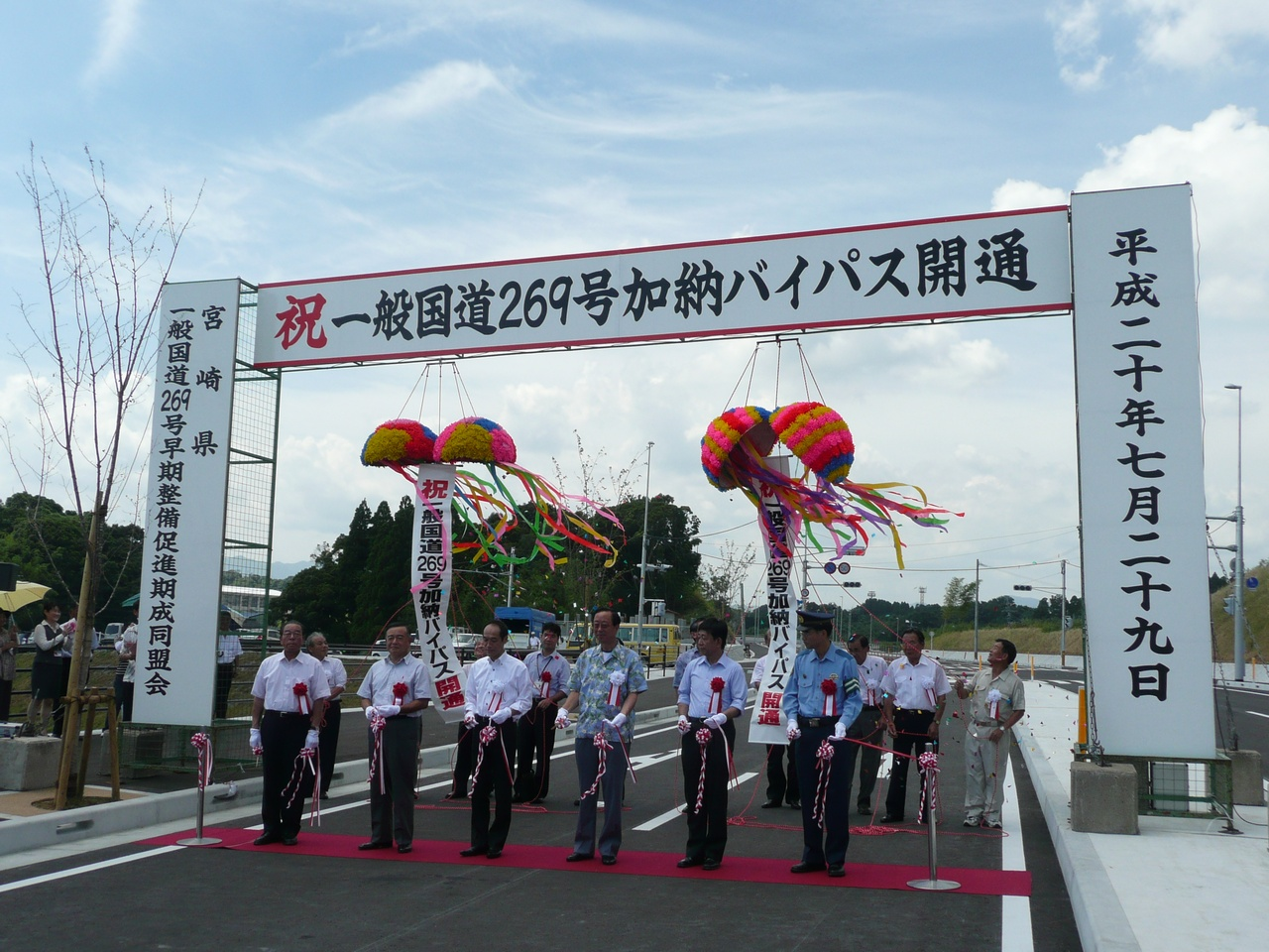 Route 269 Kano Bypass Ribbon cutting ceremony (Miyazaki City, Miyazaki, Japan)